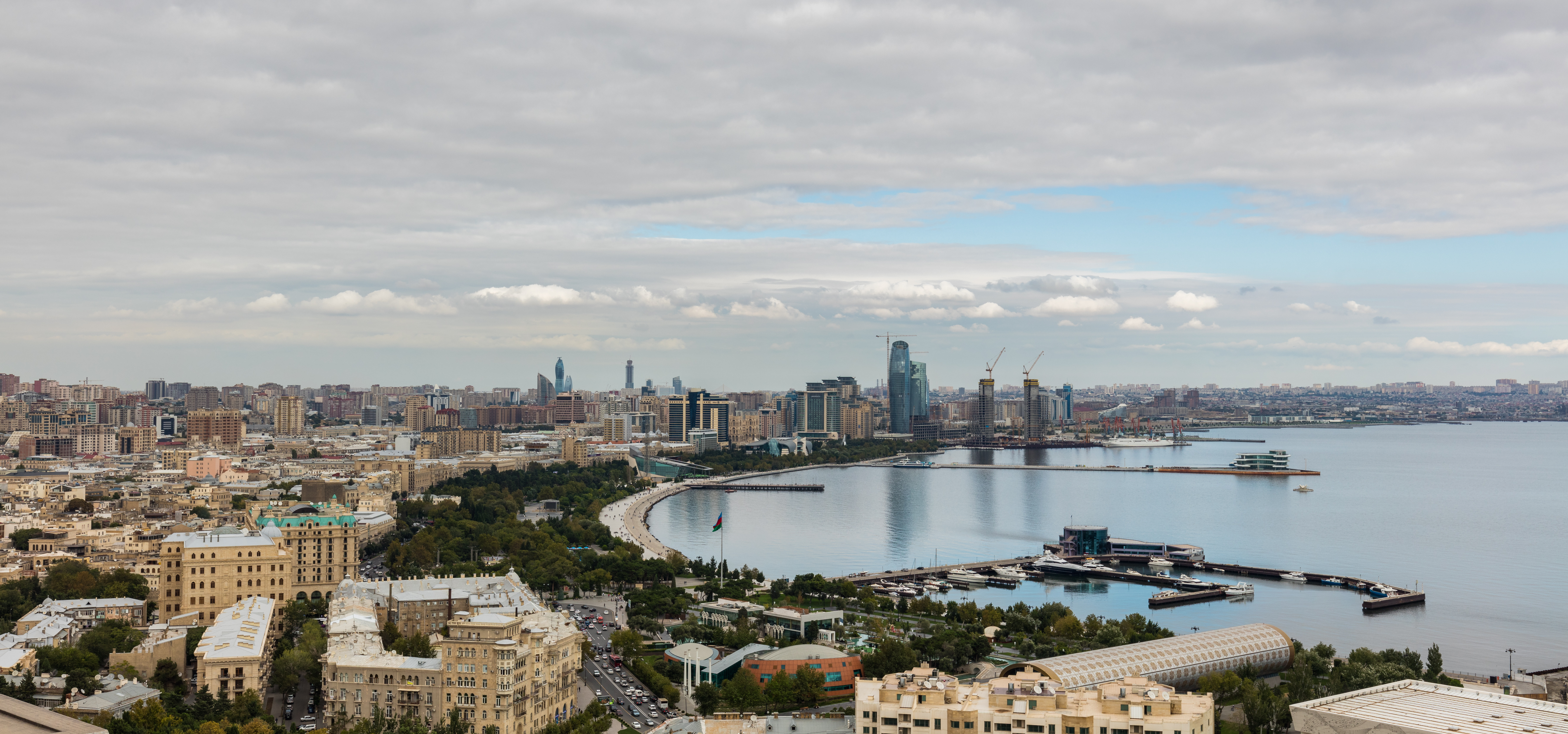 View of Baku, Azerbaijan